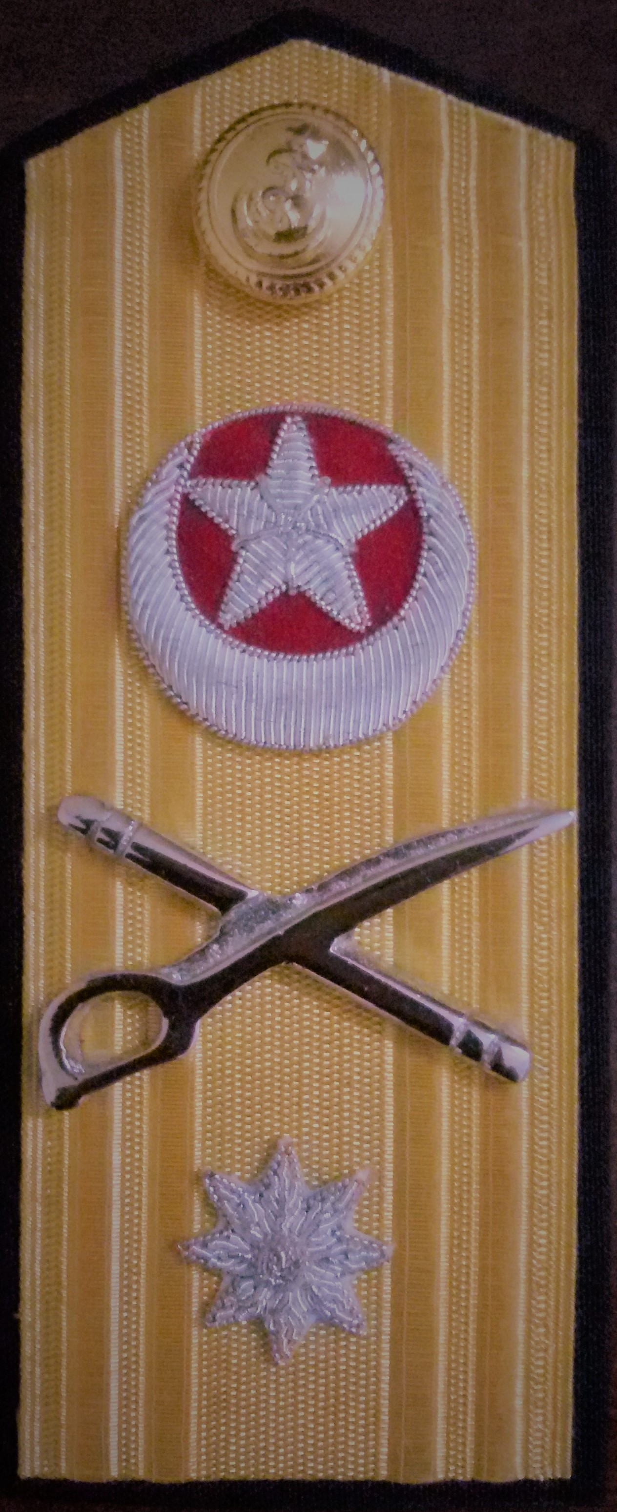 Rank insignia of commodore, a one-star officer, of Pakistan Navy